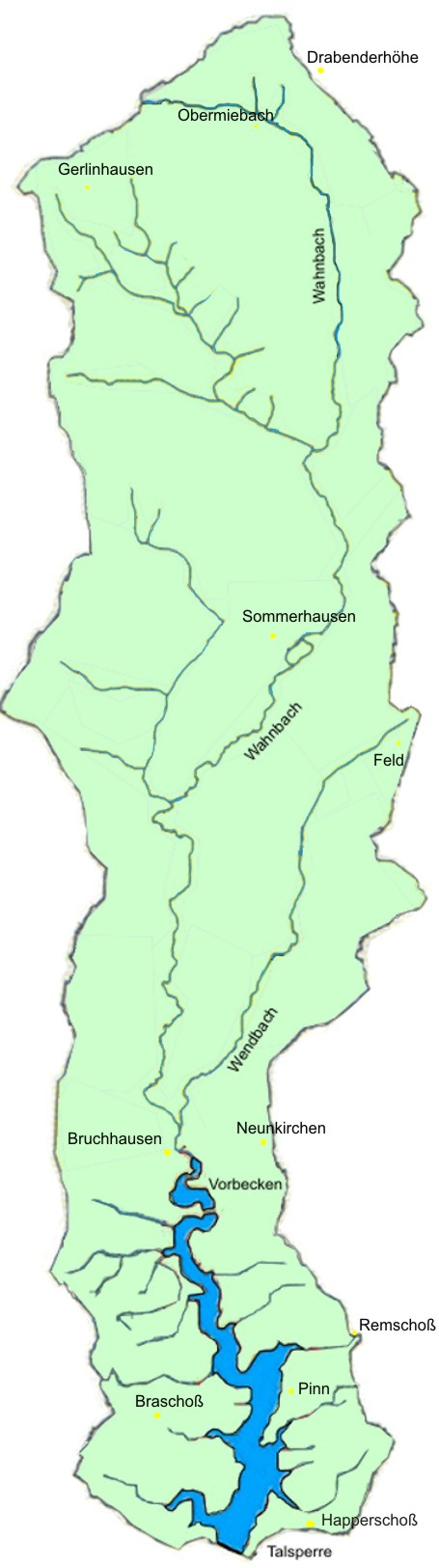 Drainage basin of Wahnbach water reservoir